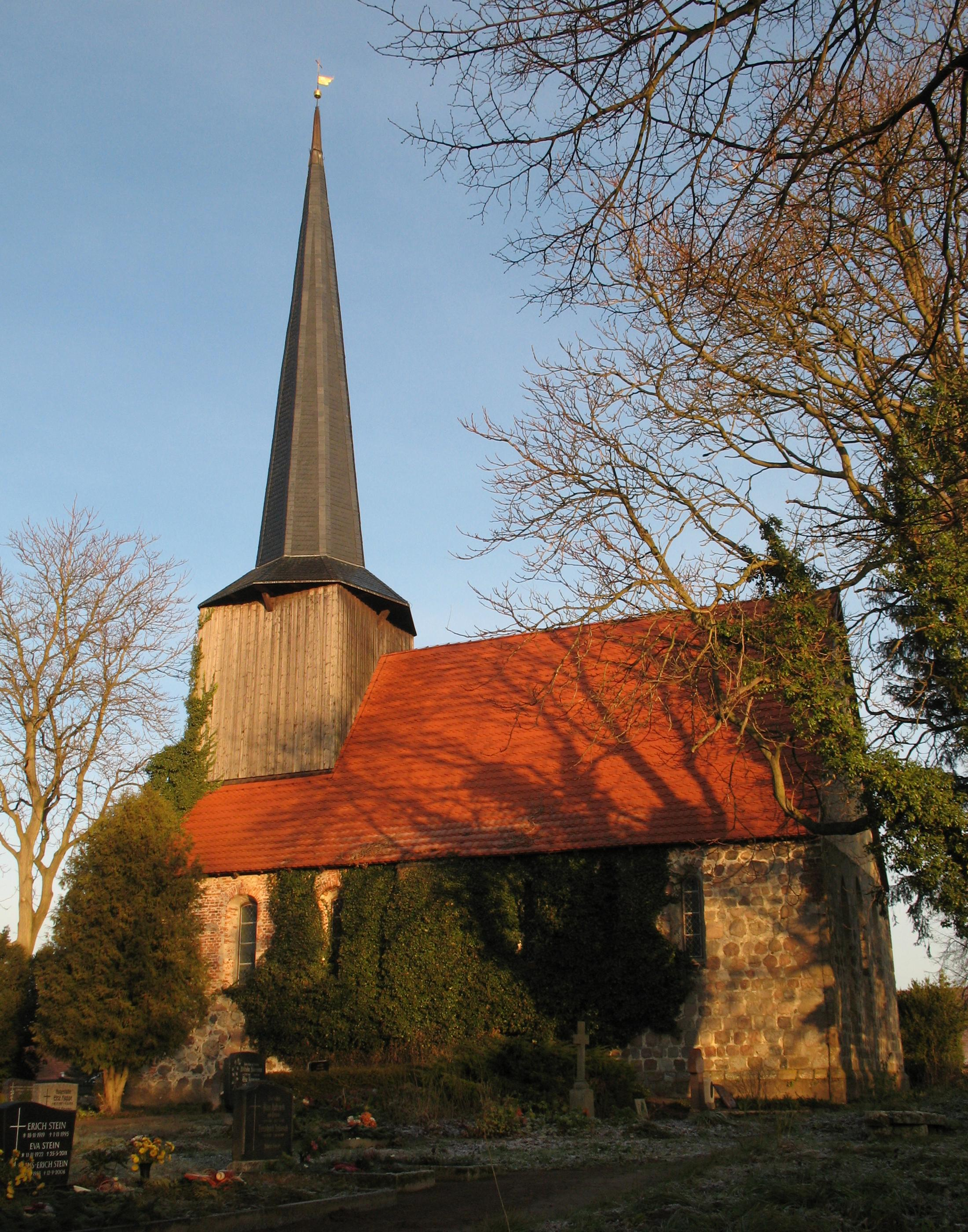 Church in Leizen in Mecklenburg-Western Pomerania, Germany